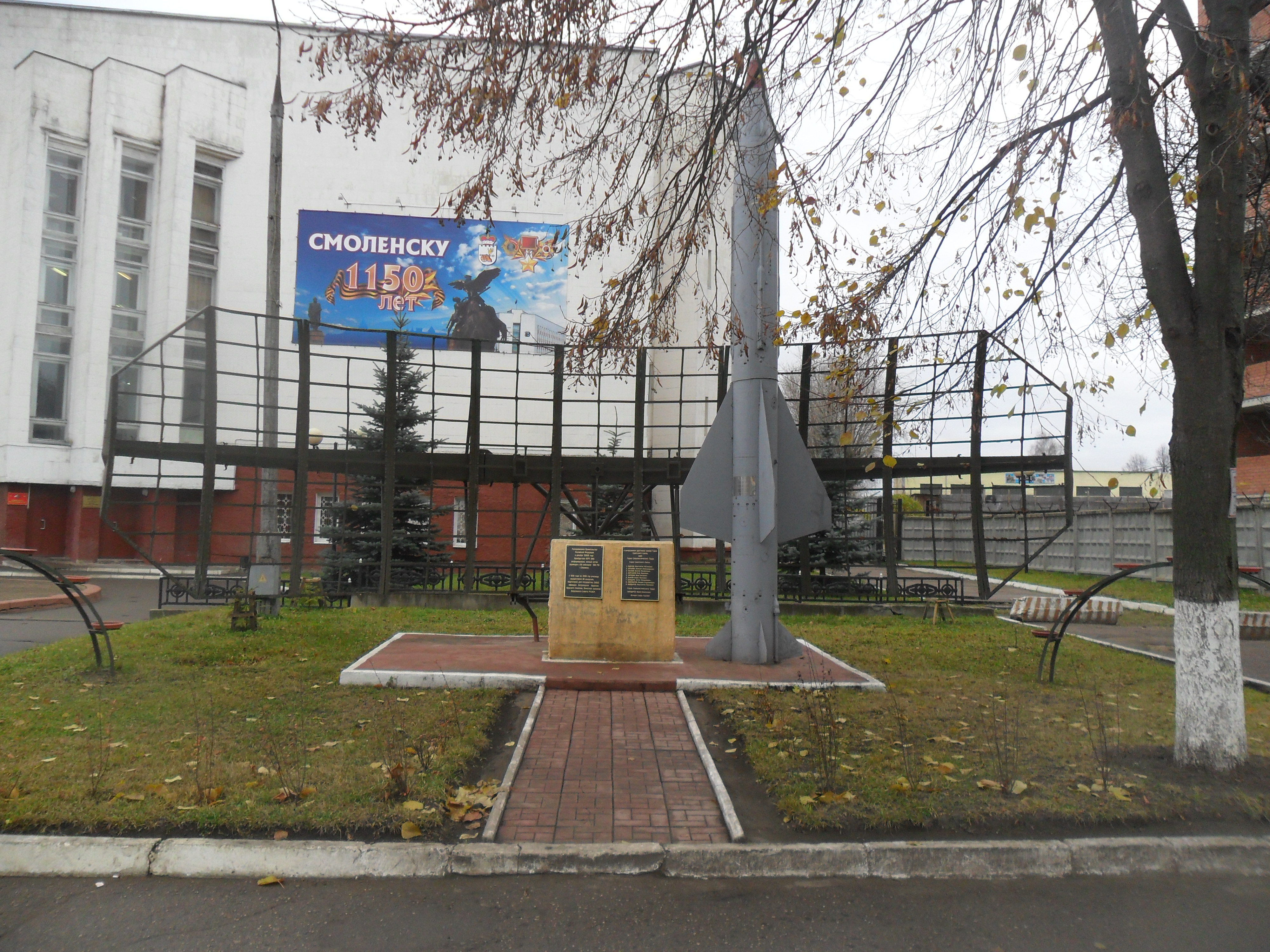 The monument, established a CPR number 1 Air Defense Military Academy in the city of Smolensk, on the street Lavochkin. It is a missile, a radar installation and a memorial with a brief history of the Orenburg military school and the names of graduates - Heroes of the Soviet Union and Hero of Socialist Labor.